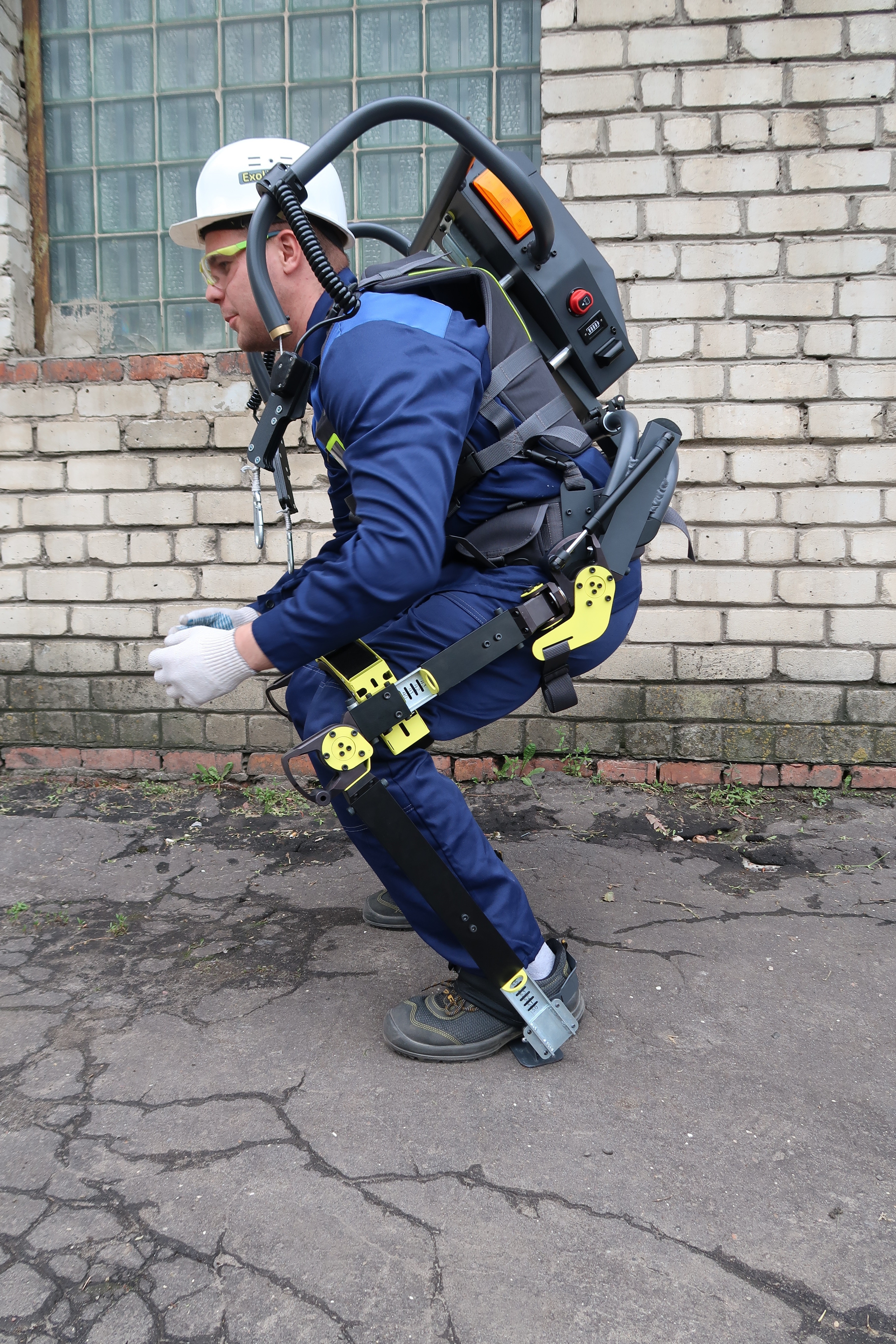 Sitting position in the exoskeleton ExoHeaver